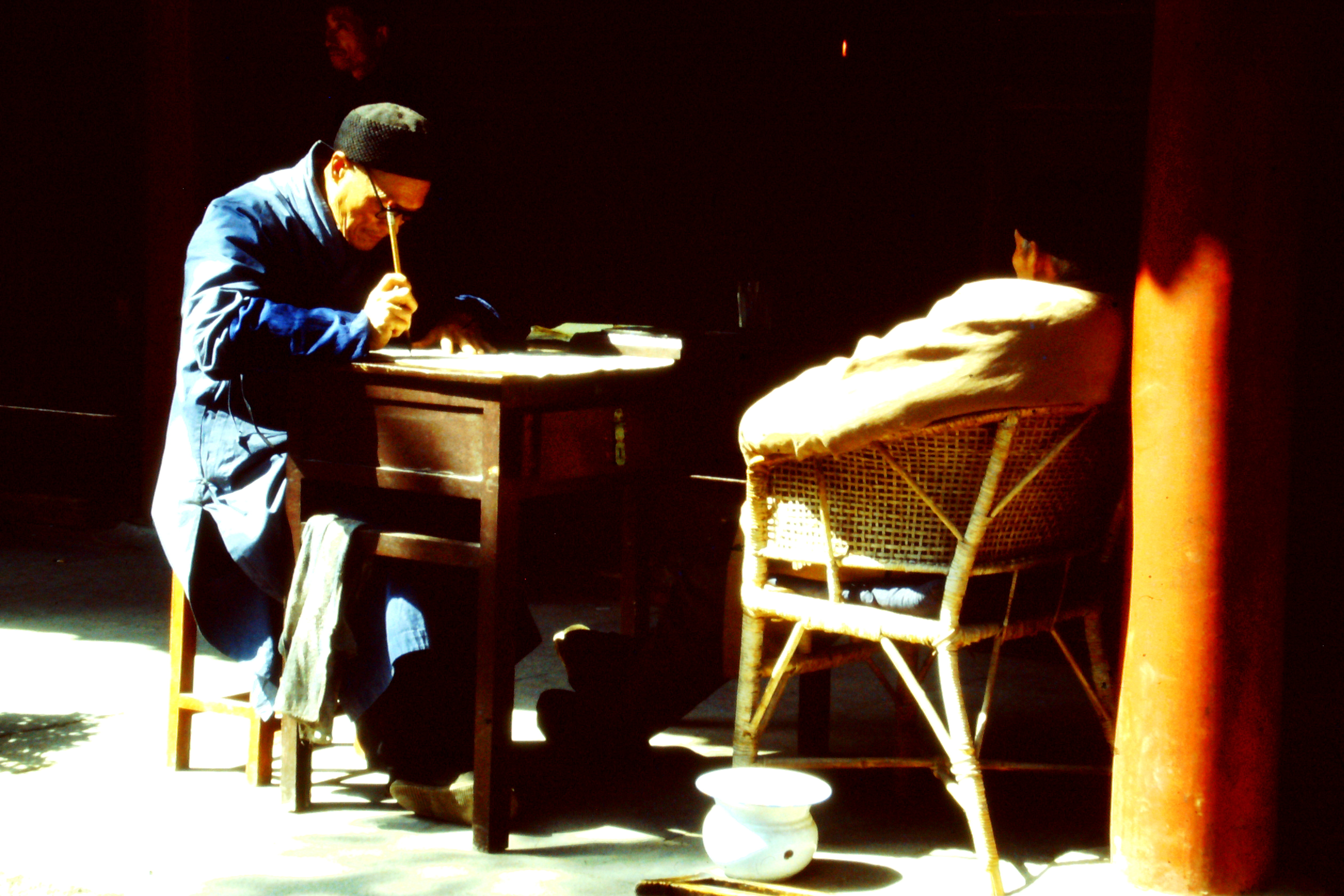 Chinese physician practicing at the White Horse monestary